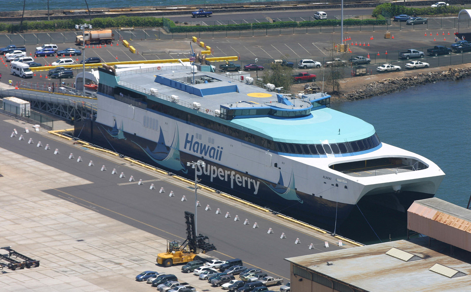 aerial view of the Hawaii Superferry Alakai during its Open House on Kauai IMO number: 9328912